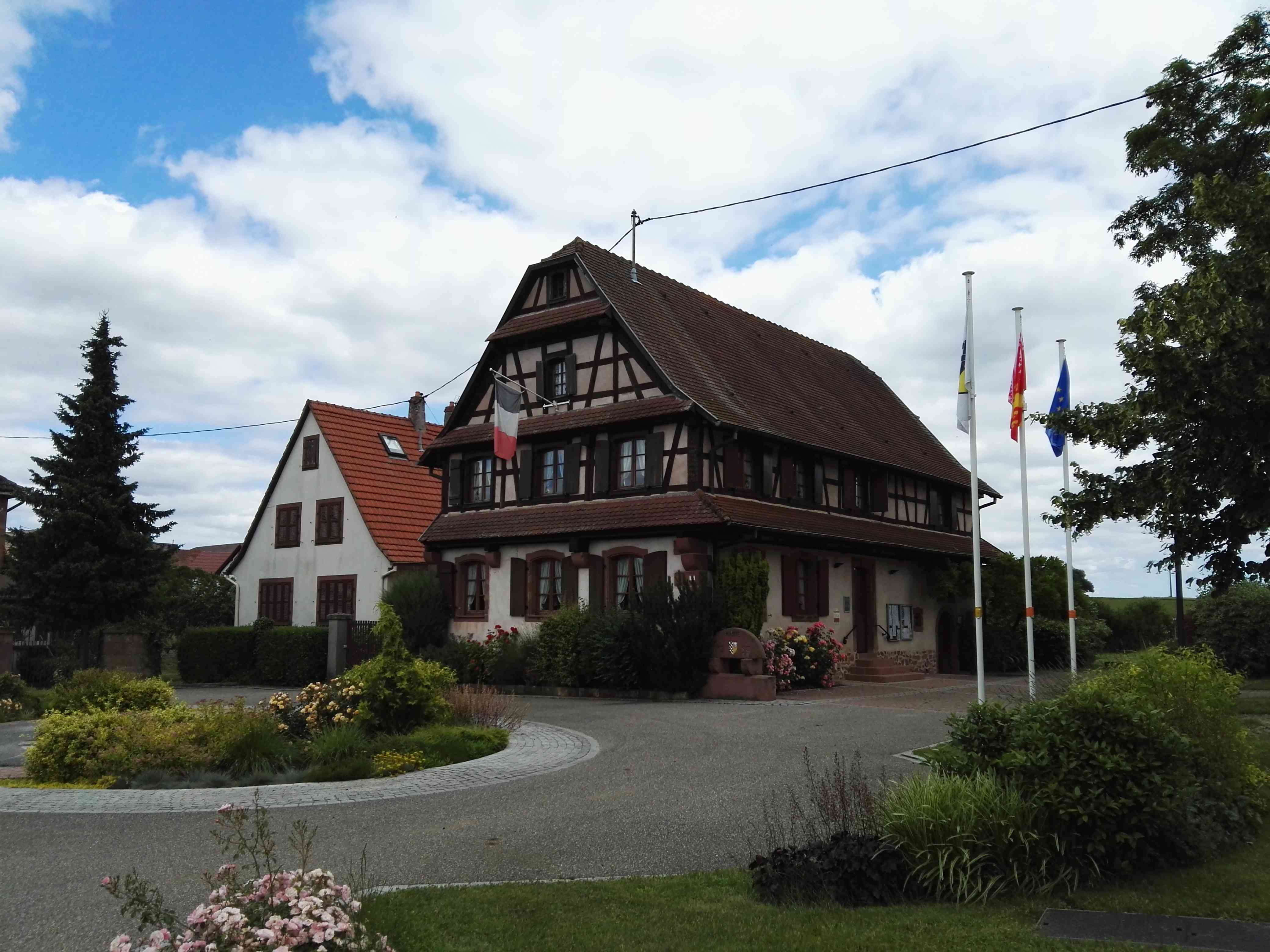 France, Alsace, Schillsdorf, town hall